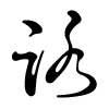 音韻「ろ」のひらがなの一種。Kzhr作成。CC-By-Sa-2.5によって提供される。 One of the letter of the phoneme "ろ". Kzhr's File.